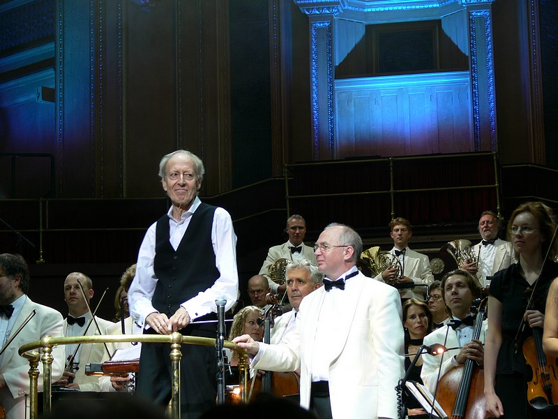 John Barry & Paul Bateman at the Royal Albert Hall.